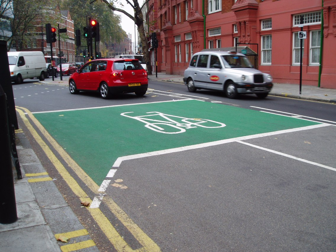 Bicycle area at road junction in London